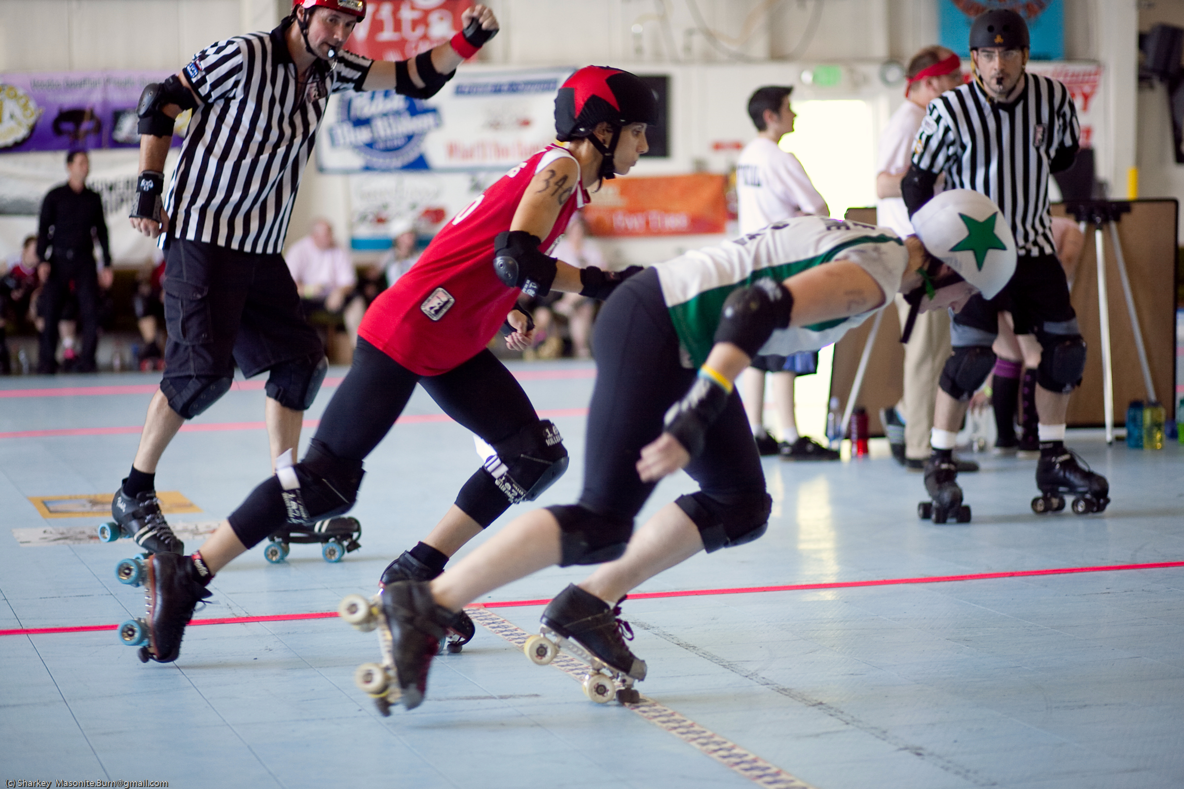 Bonnie Thunders (in red) jams for Gotham Girls Roller Derby in an August 2010 bout against Rat City.